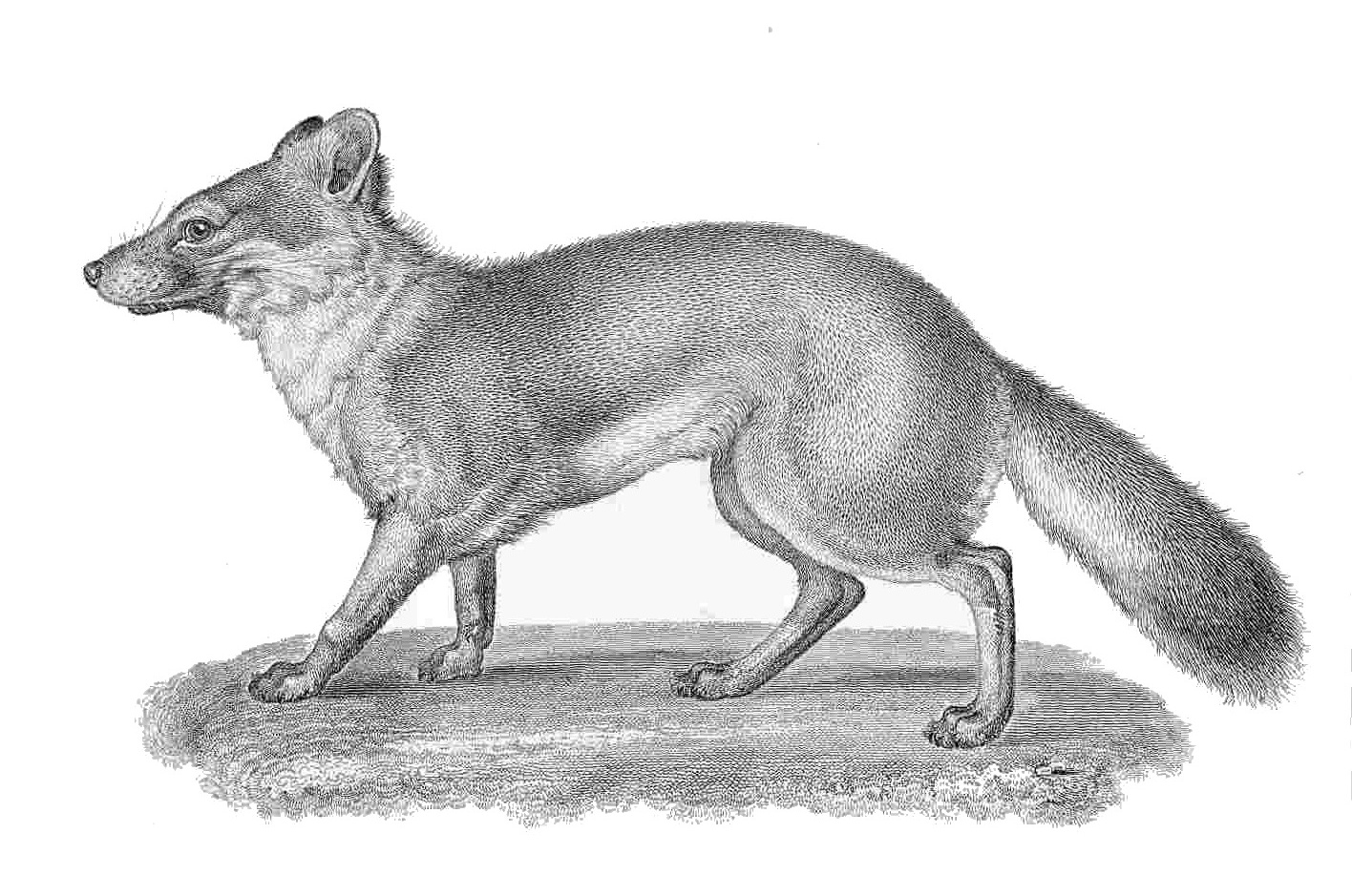 This picture is from the survey for the US Pacific Railroad, in particular from the report by Lieutenant Henry L Abbot, on the routes in Oregon and California explored by parties under the command of Lieutenant R. S. Williamson, in 1855 (from the Sacramento Valley to the Columbia River).